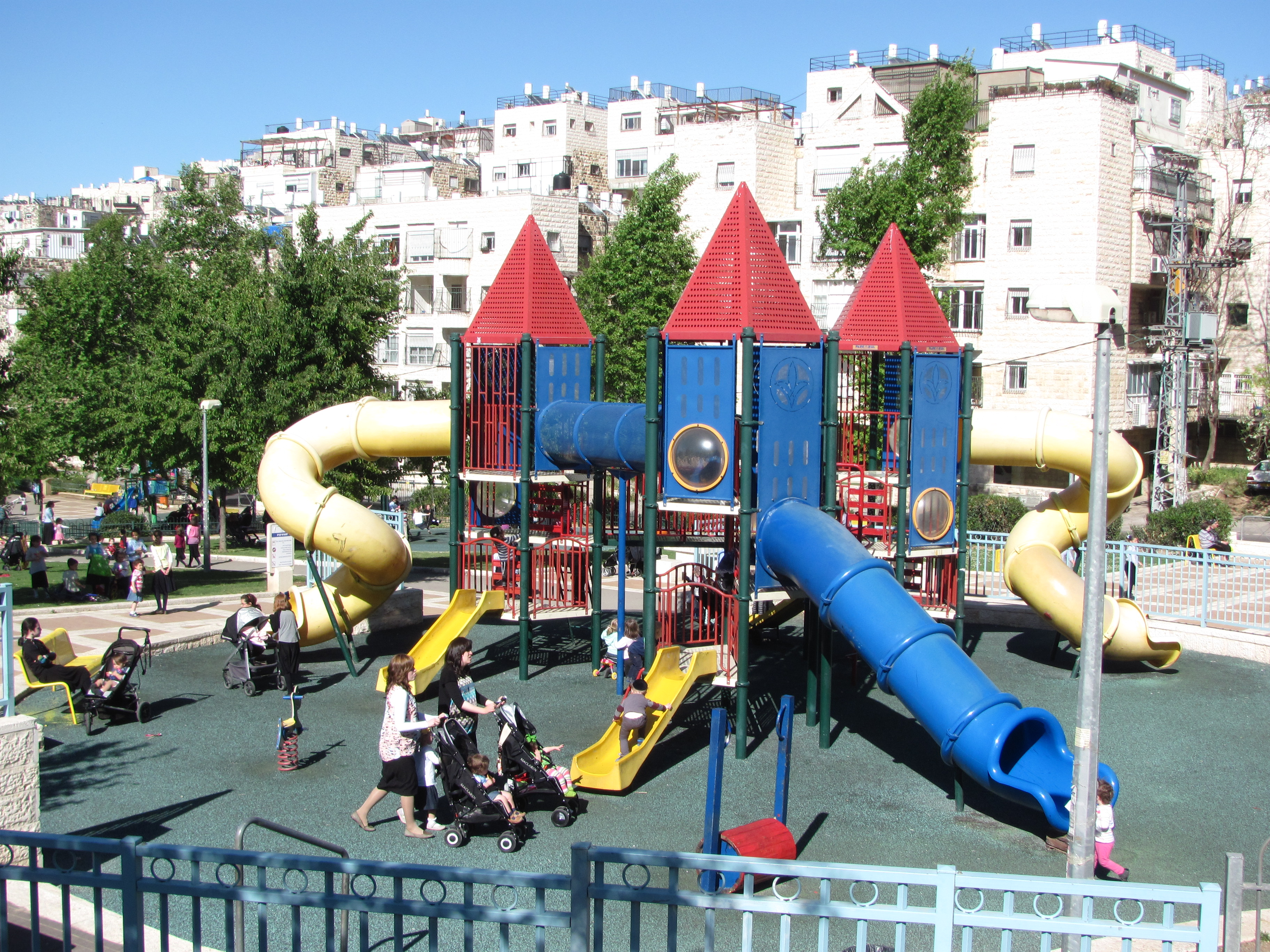 Ezrat Torah park and apartment buildings, Jerusalem, Israel